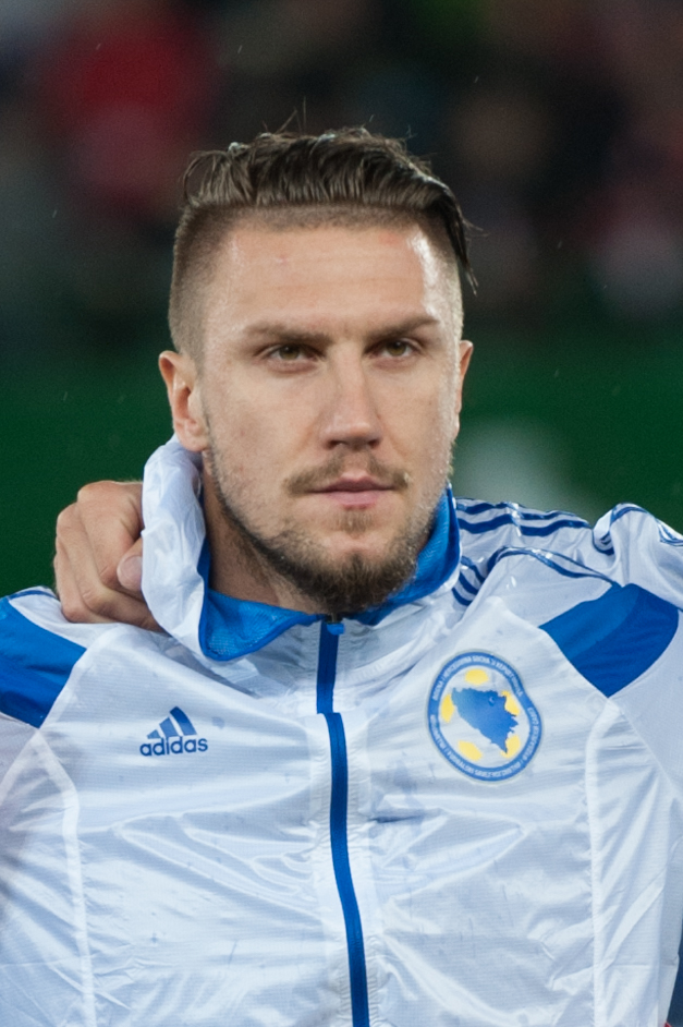 International friendly Austria vs. Bosnia and Herzegovina, 2015-03-31, Vienna